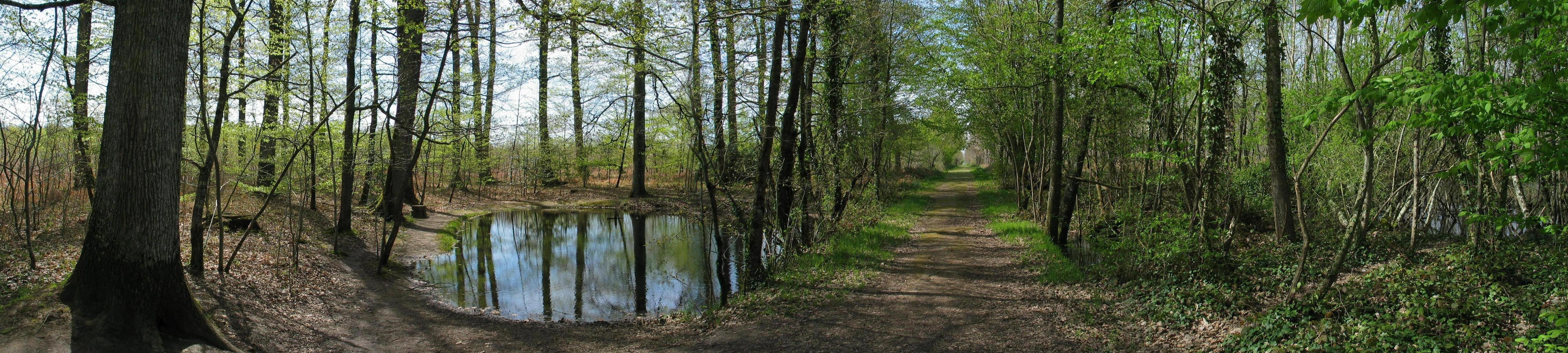 The surroundings of La Mare au Diable (The Devil's pond). Here occurs an episode of the eponymous novel (1846) by George Sand. Mers-sur-Indre, France